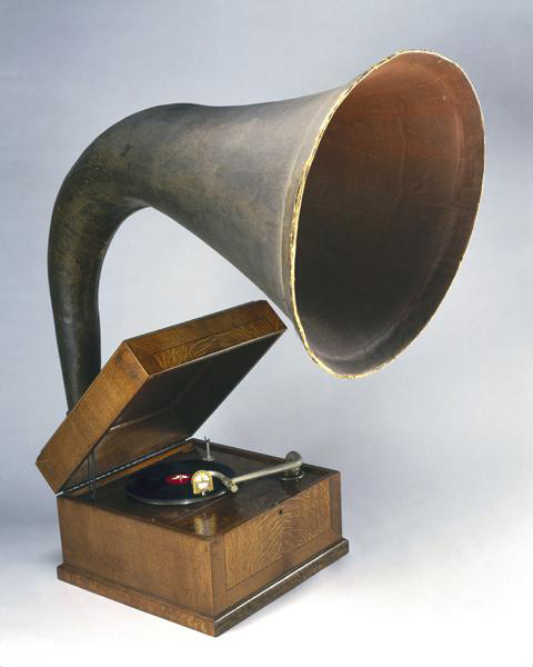 Photograph of an Expert Junior acoustic gramophone (manuf. 1930) in the collection of the Science Museum, London